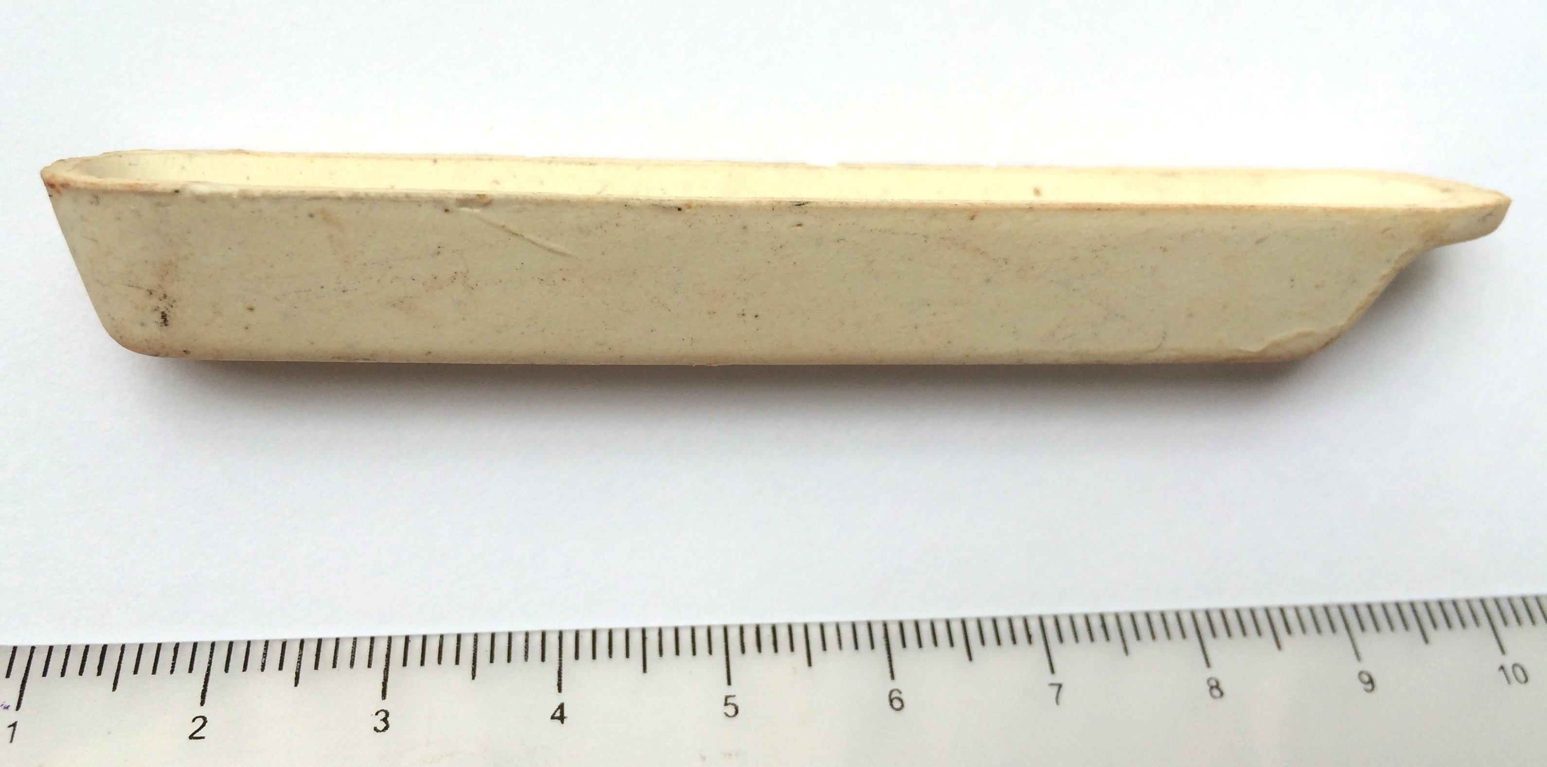 Biscuit for streak colors, mineralogy in USSR